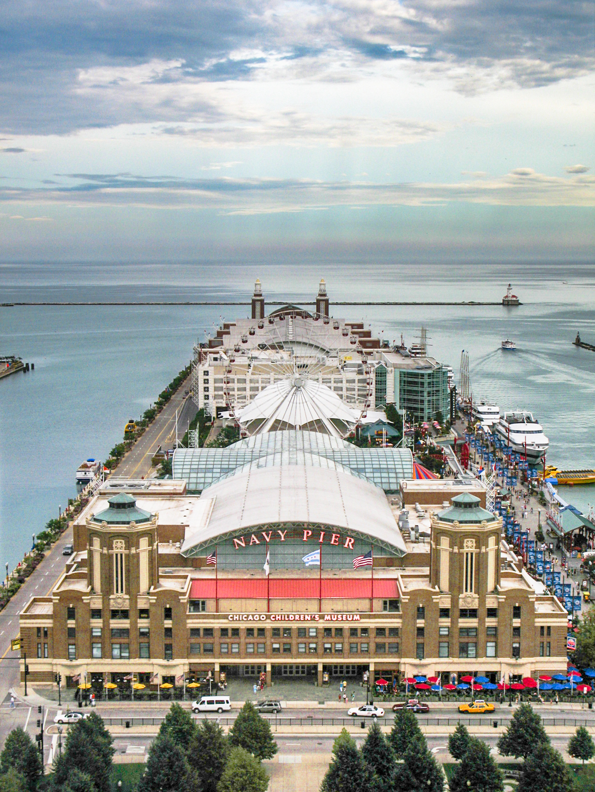 Picture of Navy Pier taken from Lake Point Tower, 23rd floor.